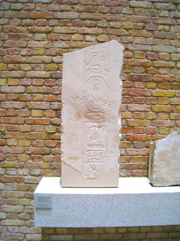 Relief Djedkare Isesi - 5th dynasty of Egypt - Egyptian museum of Berlin